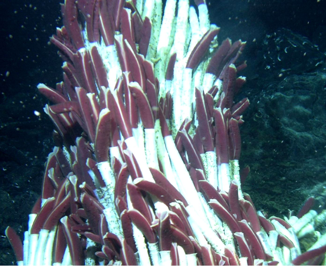 tubeworm habitat with the vestimentiferan Riftia pachyptila